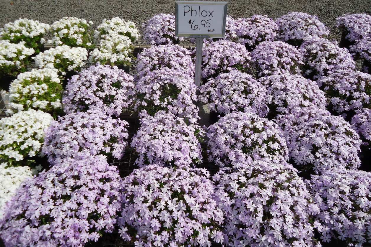 Phlox plants growing in a nursery in Cranford, New Jersey, in April 14, 2012 (correct date).